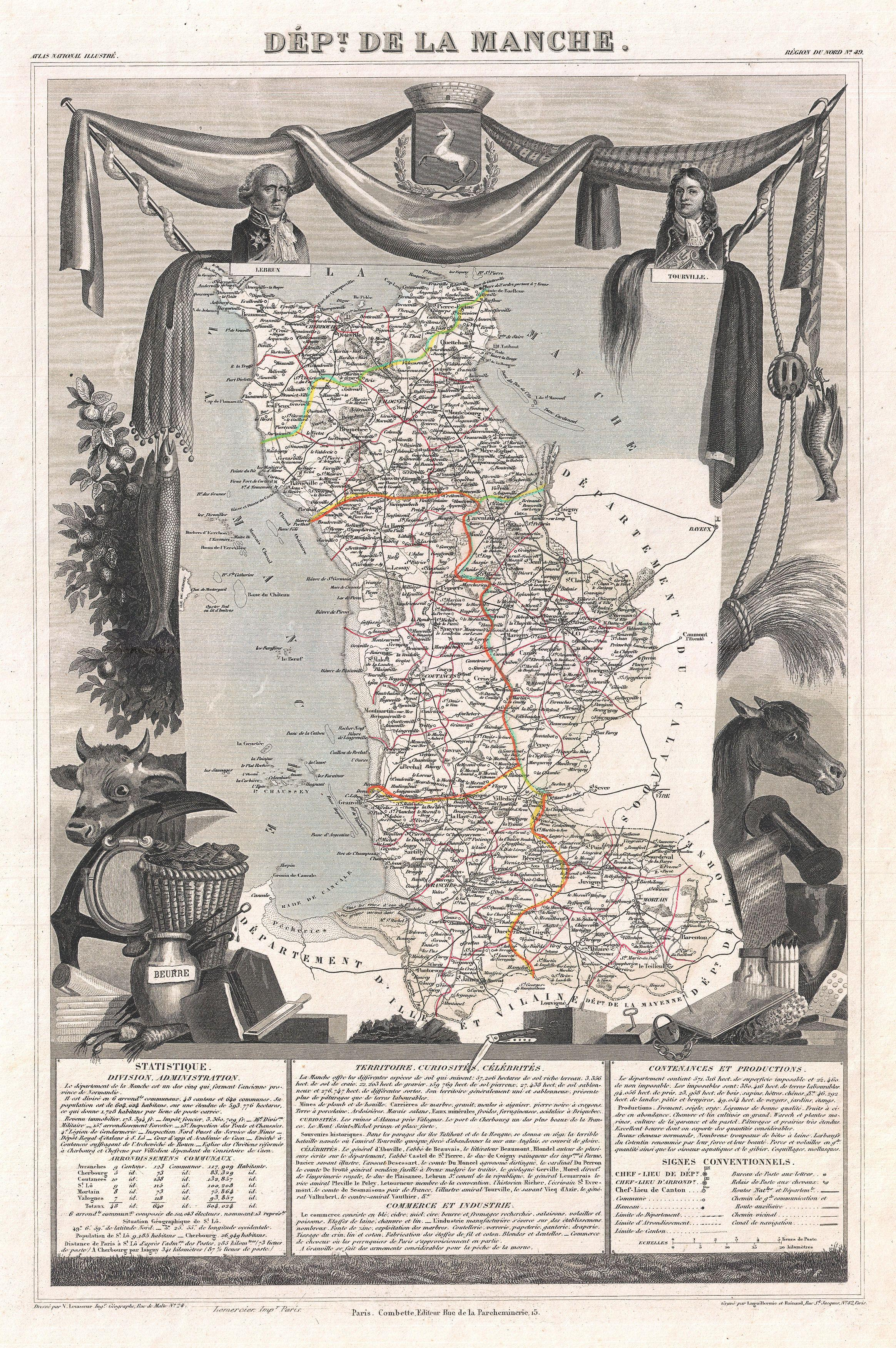 This is a fascinating 1852 map of the French department of Manche, France. This area is known for its production of Camembert, a soft, creamy, surface-ripened cow’s milk cheese. The map proper is surrounded by elaborate decorative engravings designed to illustrate both the natural beauty and trade richness of the land. There is a short textual history of the regions depicted on the bottom of the map. Published by V. Levasseur in the 1852 edition of his Atlas National de la France Illustree.